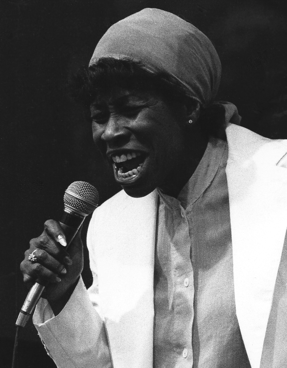 Vocalist Betty Carter performing at the Pori Jazz Festival in Finland, July 1978.